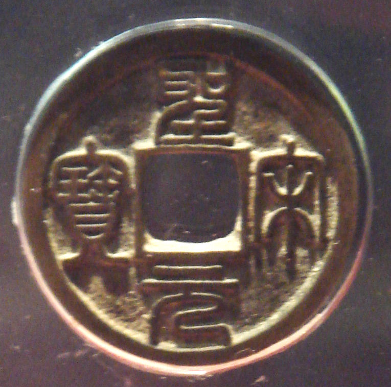 Chinese_Seisou_Genbou_coin (Northern Song)